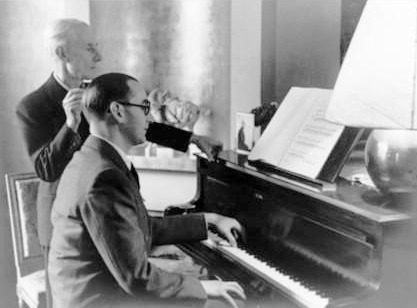 Maurice Ravel with Jacques Février playing Ravel's Piano Concerto for the Left Hand in Paris before Février's departure for the United-States.